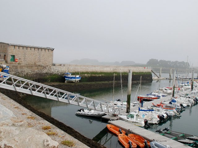 L'Aber-Wrac'h, Bretagne